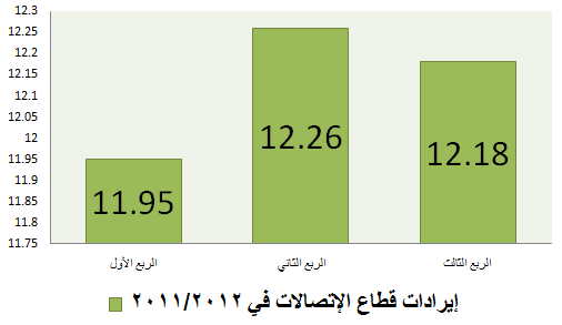 diagram for telecom revenues in EgypT